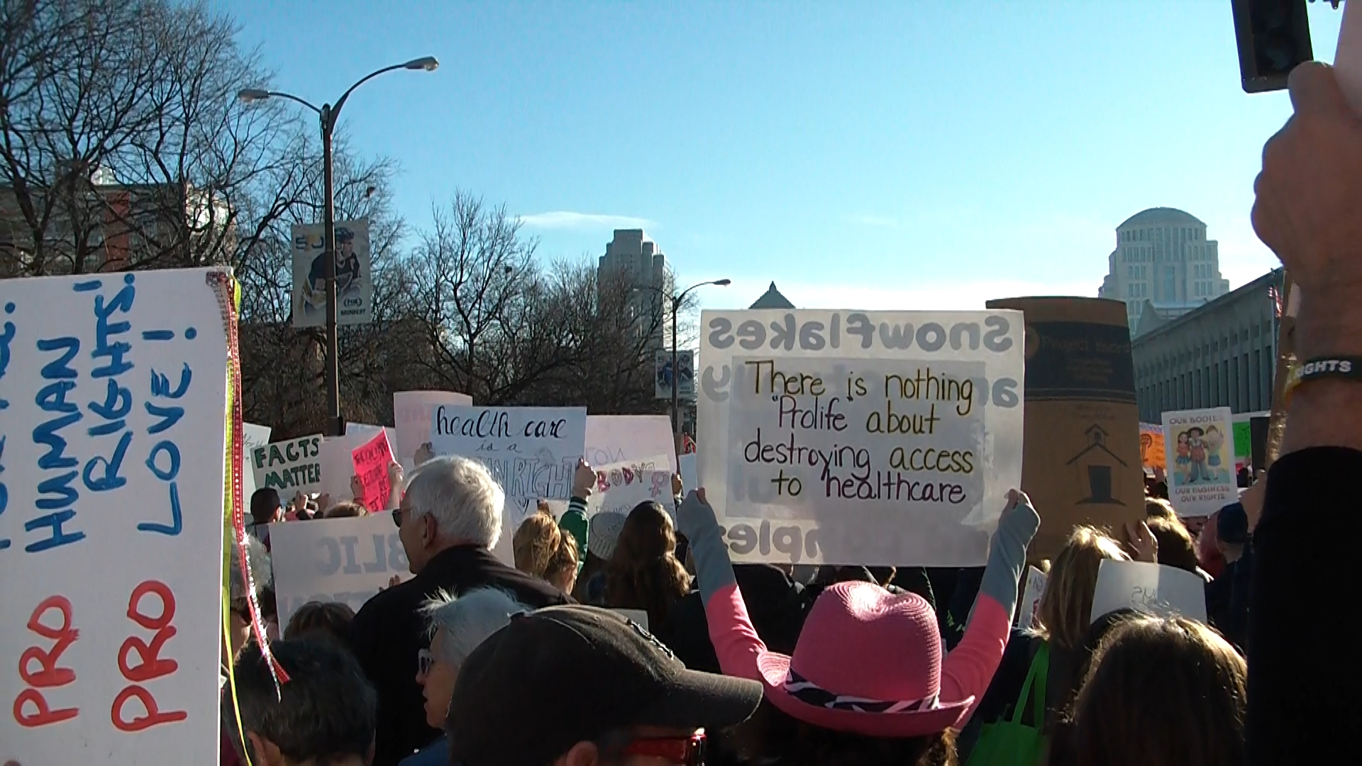 Thousands of women (and men) marched in St. Louis to demonstrate their beauty, strength and diversity - and to stand in solidarity with women marching all across the world that day, January 21, 2017, the day after the inauguration of Donald Trump. Many of us wore 'pussy hats' that we'd knitted to take back the power of the 'pussy,' a power so awesome that it has the new misogynistic president of the United States quaking.